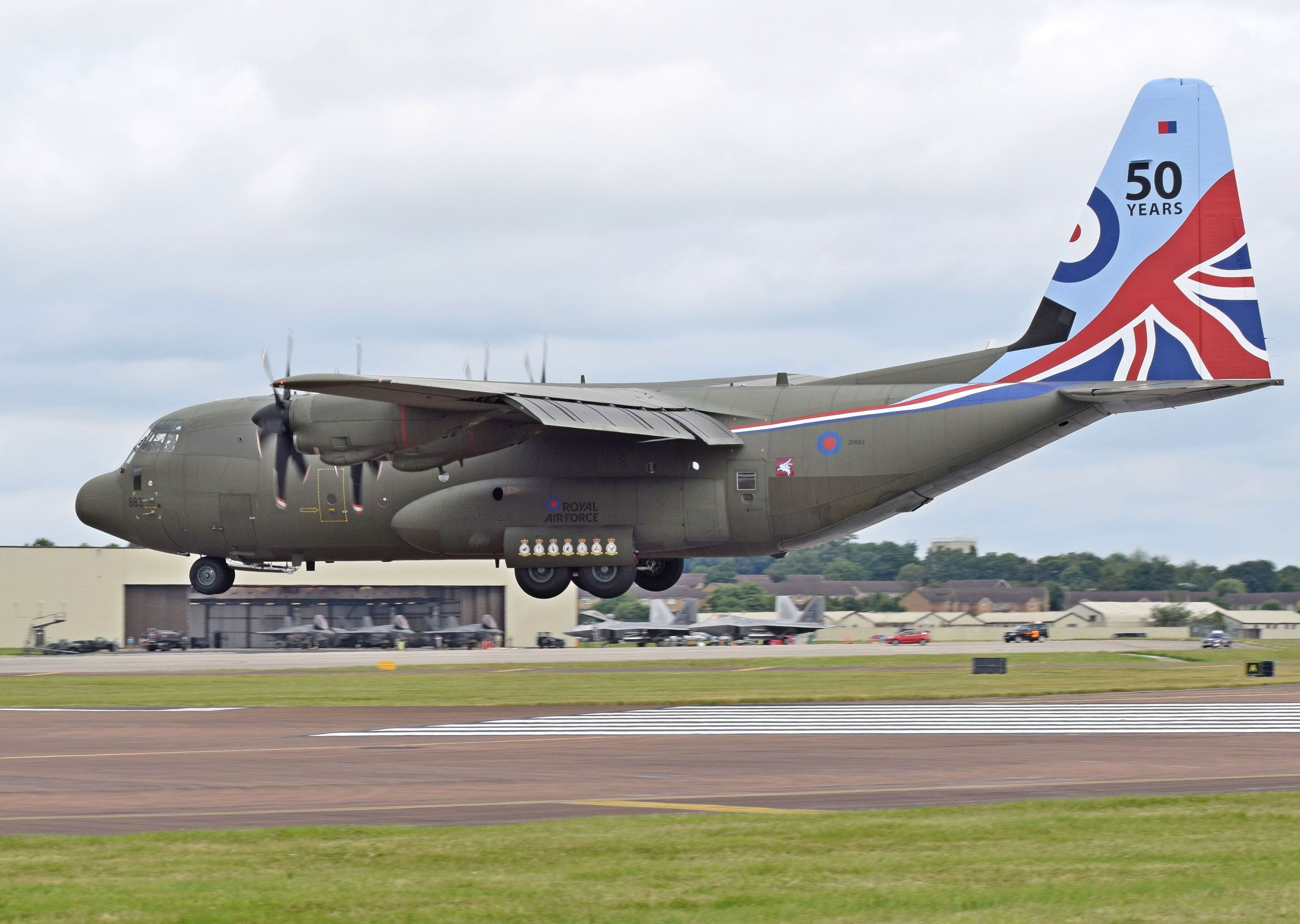 Lockheed Martin C-130J Hercules (code ZH883) of the Royal Air Force arrives at the 2016 Royal International Air Tattoo, RAF Fairford, England. The fin marking celebrates the 50th anniversary of the delivery of the RAFs first Hercules. (In the background, the hangar has three F-35 Lightnings, and outside two F-22 Raptors).